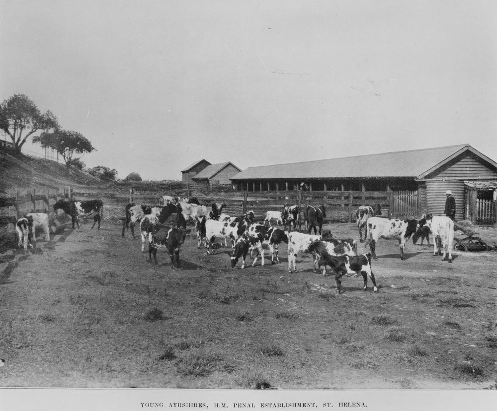 Ayrshire herd on St. Helena Island, 1910.